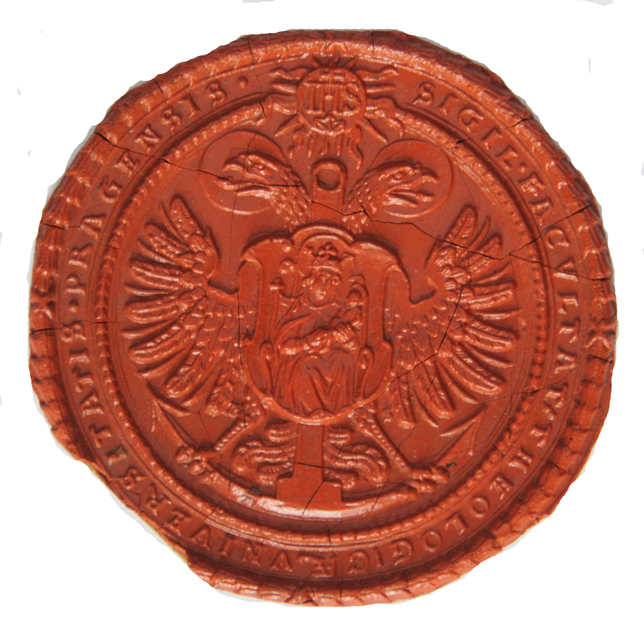 Charles University-Faculty of Theology, the original seal ≈ 1780 .